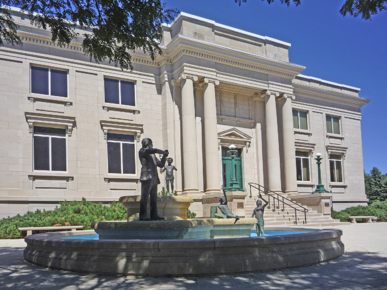 National Music Museum, 414 East Clark Street, Vermillion, South Dakota USA